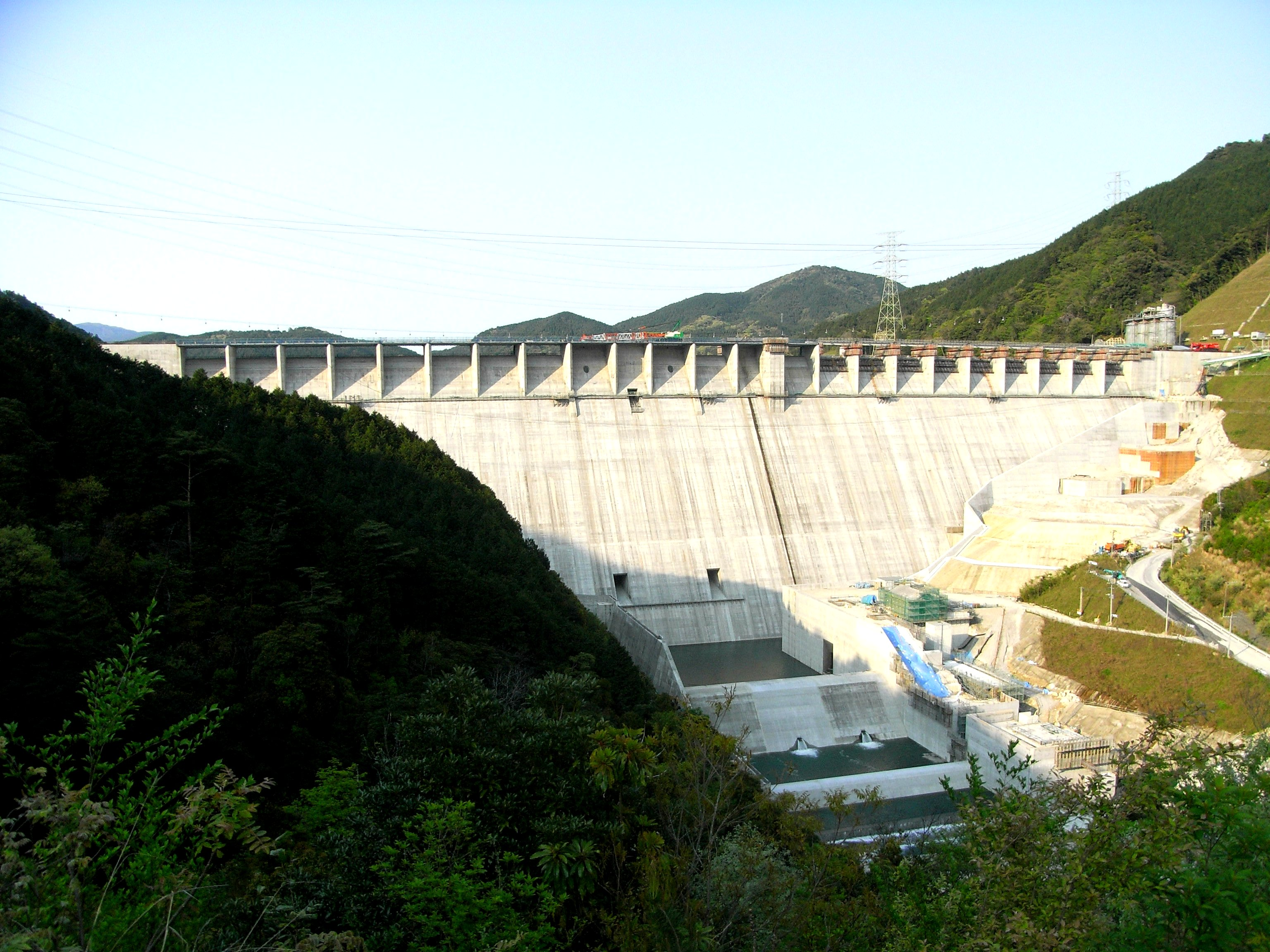 Kasegawa Dam(Kasegawa river/Saga pref./Japan)